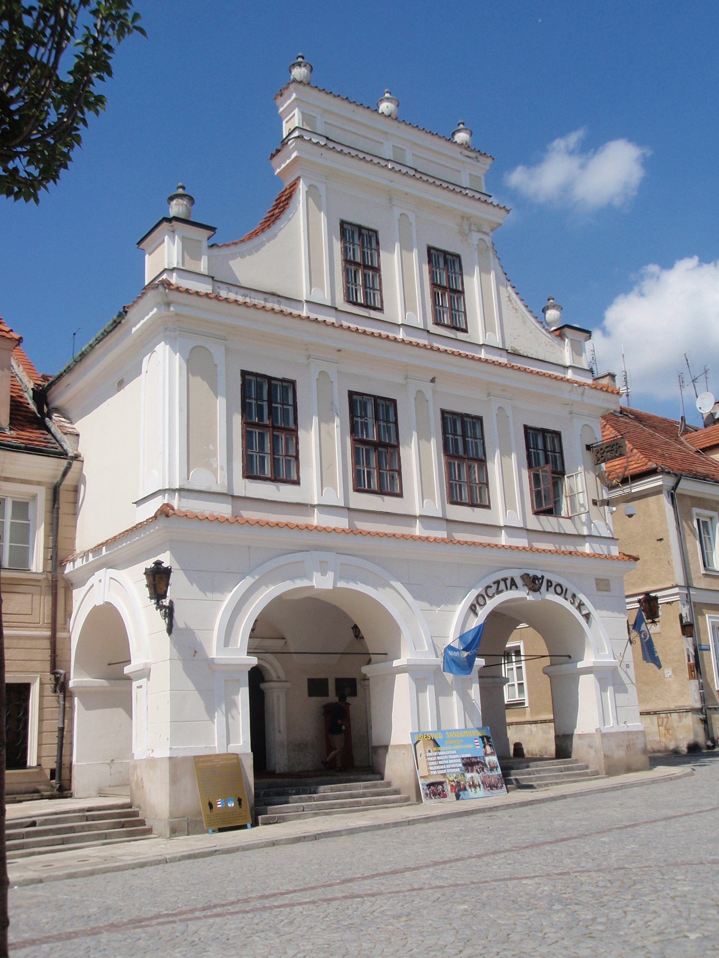 Post office in Sandomierz, Poland